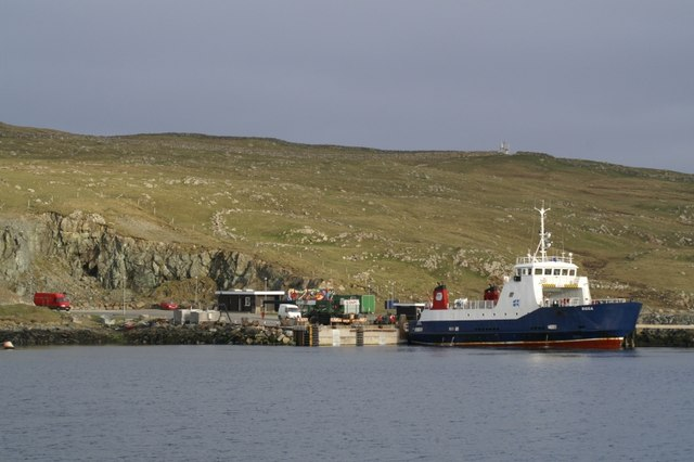 Belmont ferry The MV Bigga at Belmont.